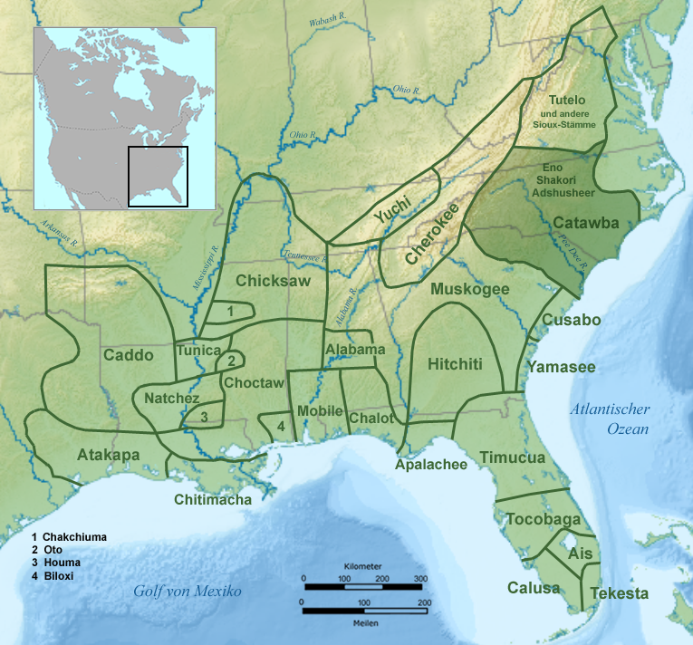 Tribal territory of Eno, Shakori and Cheraw during seventeenth century